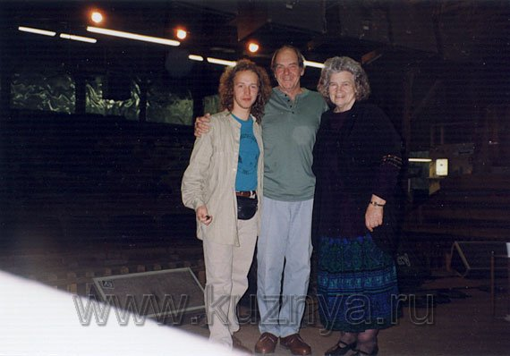 Mitya Kuznetsov with Bill Clifton and Janette Carter at Carter Fold, Virginia, USA, 1997